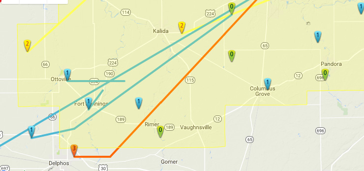 Map data compiled from the Tornado History Project of tornados near Vaughnsville since 1950.